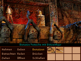 Mockup screenshot showing the gameplay of point-and-click adventure games of the late 1980s and early 1990s.